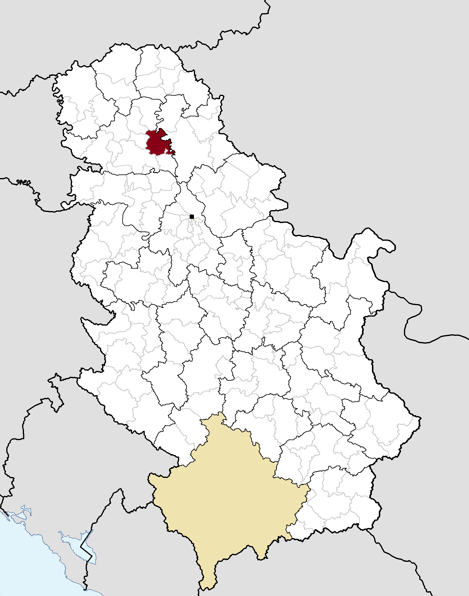 Municipal location in Serbia